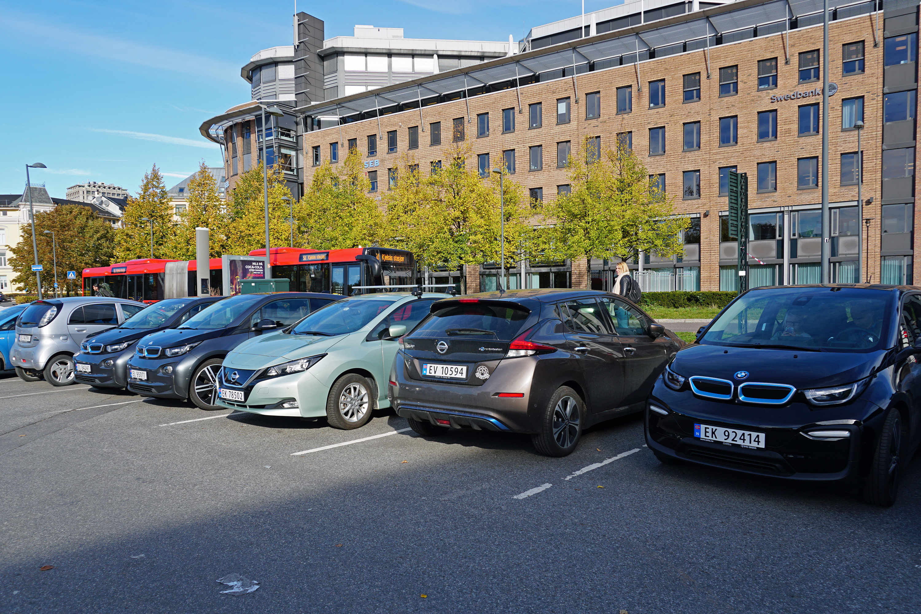 Free parking lot exclusive for all-electric cars in Oslo, Norway.